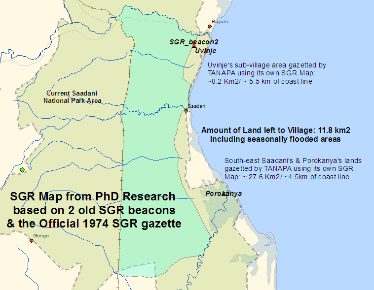 This map of the Saadani Game Reserve was created using the Saadani Game Reserve Gazette document and the location of two original SGR boundary beacons.